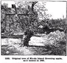 Image from: "Cyclopedia of American Horticulture: Comprising Suggestions for Cultivation of Horticultural Plants, Descriptions of the Species of Fruits, Vegetables, Flowers, and Ornamental Plants Sold in the United States and Canada, Together with Geographical and Biographical Sketches" By Liberty Hyde Bailey, Wilhelm Miller Edition: 2 Published by The Macmillan Company, 1902, pg. 1515[1]